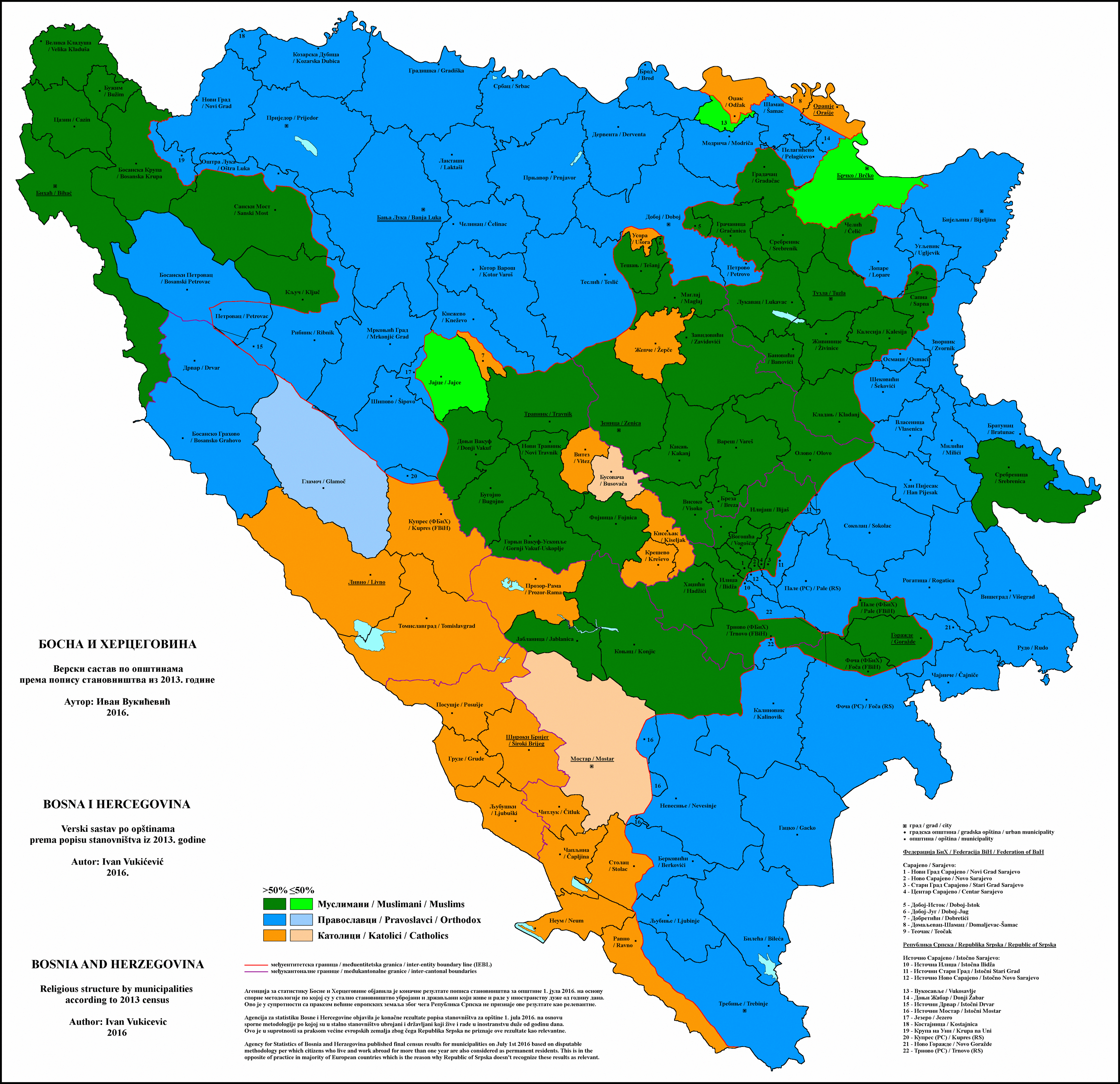 Religious structure of Bosnia and Herzegovina by municipalities 2013. Authorː Ivan Vukicevic - Sources: - Census of population, households and dwellings in Bosnia and Herzegovina, 2013 - Final results, Agency for statistics of Bosnian and Herzegovina, 1st of July 2016. - EU legislation on the 2011 Population and Housing Censuses, Eurostat, 2011. Recommendations for status of permanent residents followed by majority of EU member and candidate countries on page 66, Topic: Place of usual residence, paragraph (d)ː An institution shall be taken as the place of usual residence of all its residents who at the time of the census have spent, or are likely to spend, 12 months or more living there. - Public announcement, 4th of July 2016, Republic of Srpska Institute of Statistics, 4th of July 2016. With this announcement institute disputes the methodology used by Agency for statistics of Bosnia and Herzegovina.